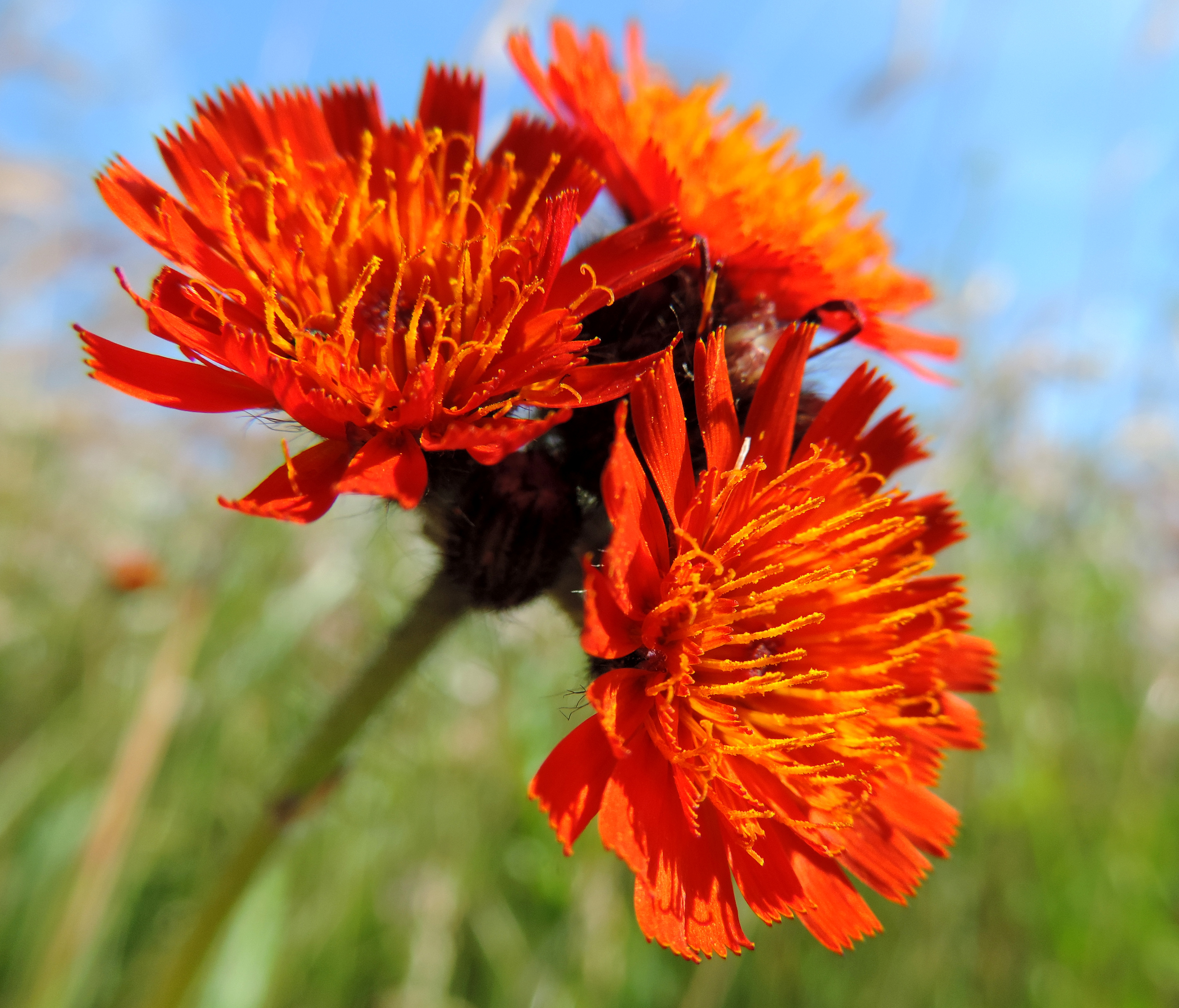 Hieracium aurantiacum, near Kamien Pomorski (NW Poland)